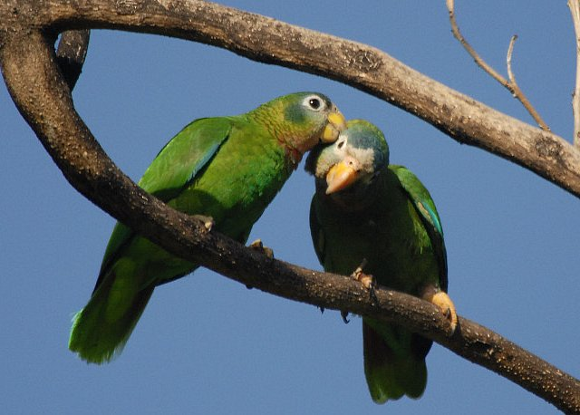 Yellow-billed Amazons in the Kingston, St. Andrew, Jamaica.